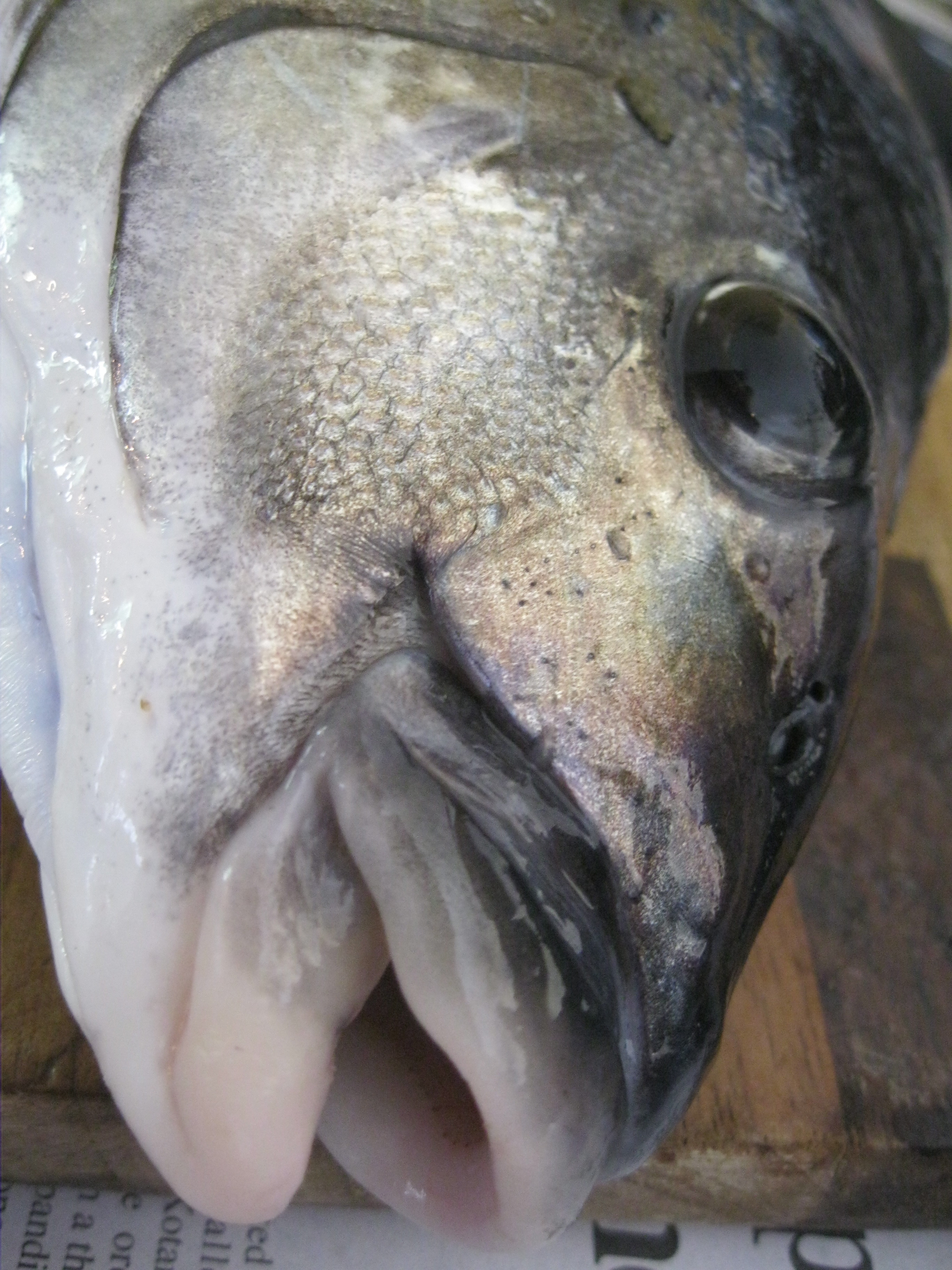 The head of a blue moki (Latridopsis ciliaris).